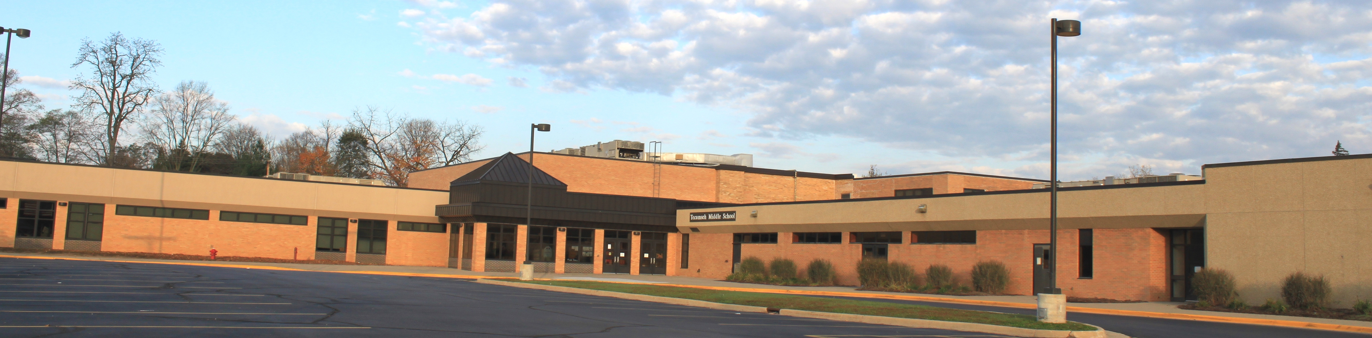 Tecumseh Middle School, 307 North Maumee Street, Tecumseh, Michigan.